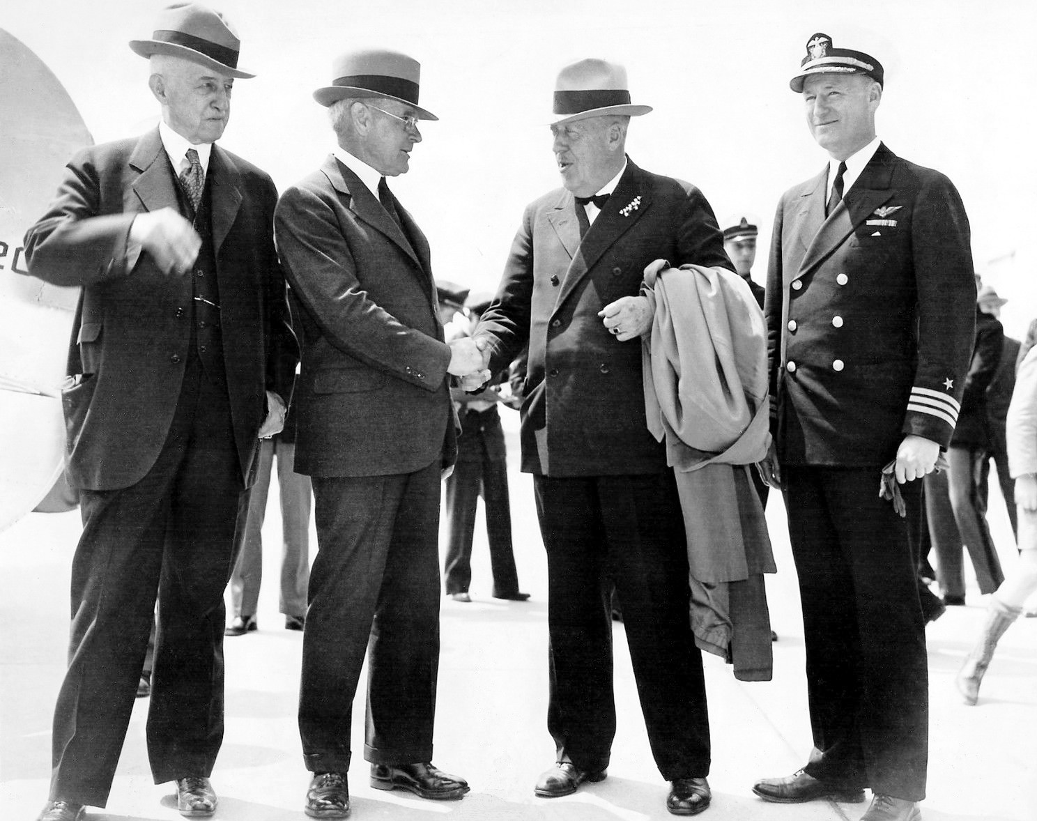 Photo of Dr. Hugo Eckener being officially greeted by the United States after the first landing of the Hindenburg on May 9, 1936. From left: R. Walton Moore, Assistant Secretary of State, Admiral William H. Standley, shaking hands with Dr. Hugo Eckener. At extreme right is Commander Charles Rosendahl, then chief of the Lakehurst Naval station, where the airship landed.